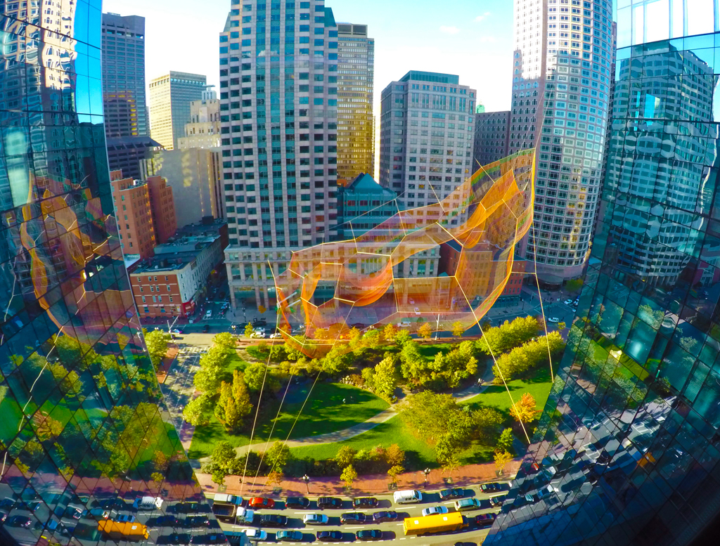 As If It Were Already Here in Boston, MA. 2015. (Photo: Bruce Petschek)